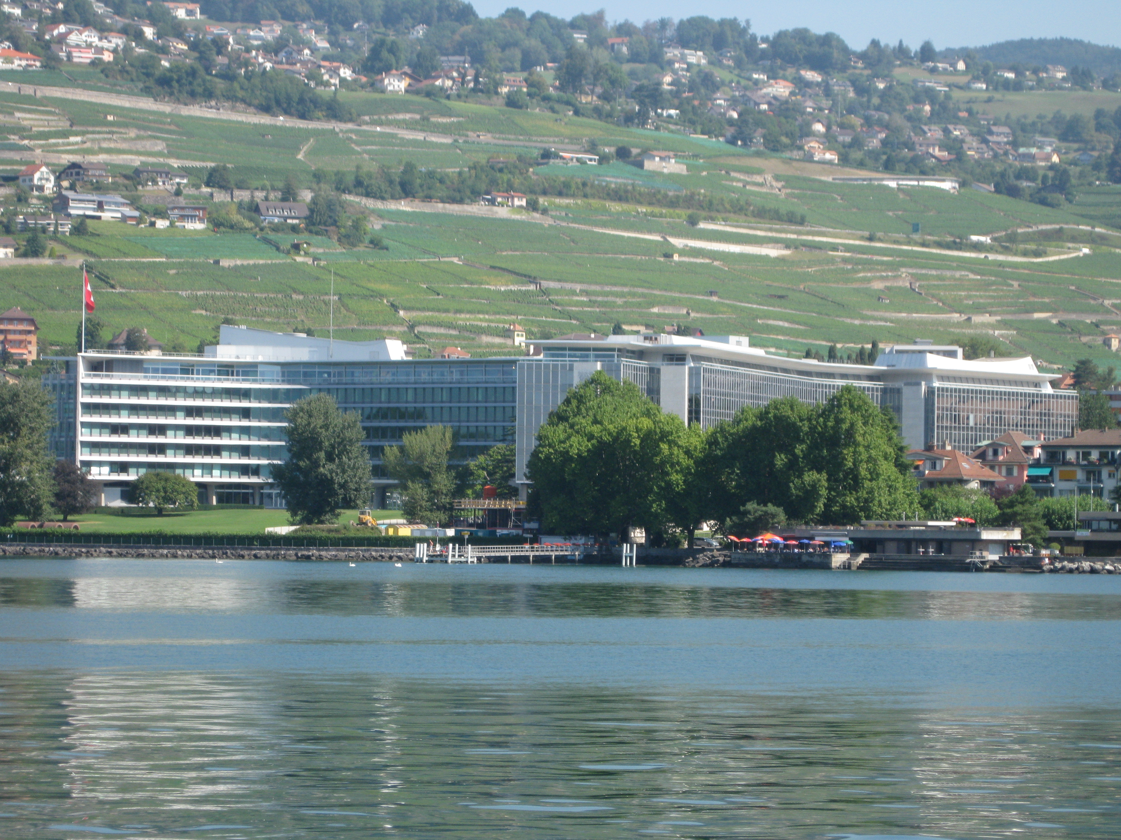 Around the lake of Geneva, Switzerland / France. Location see geotag.